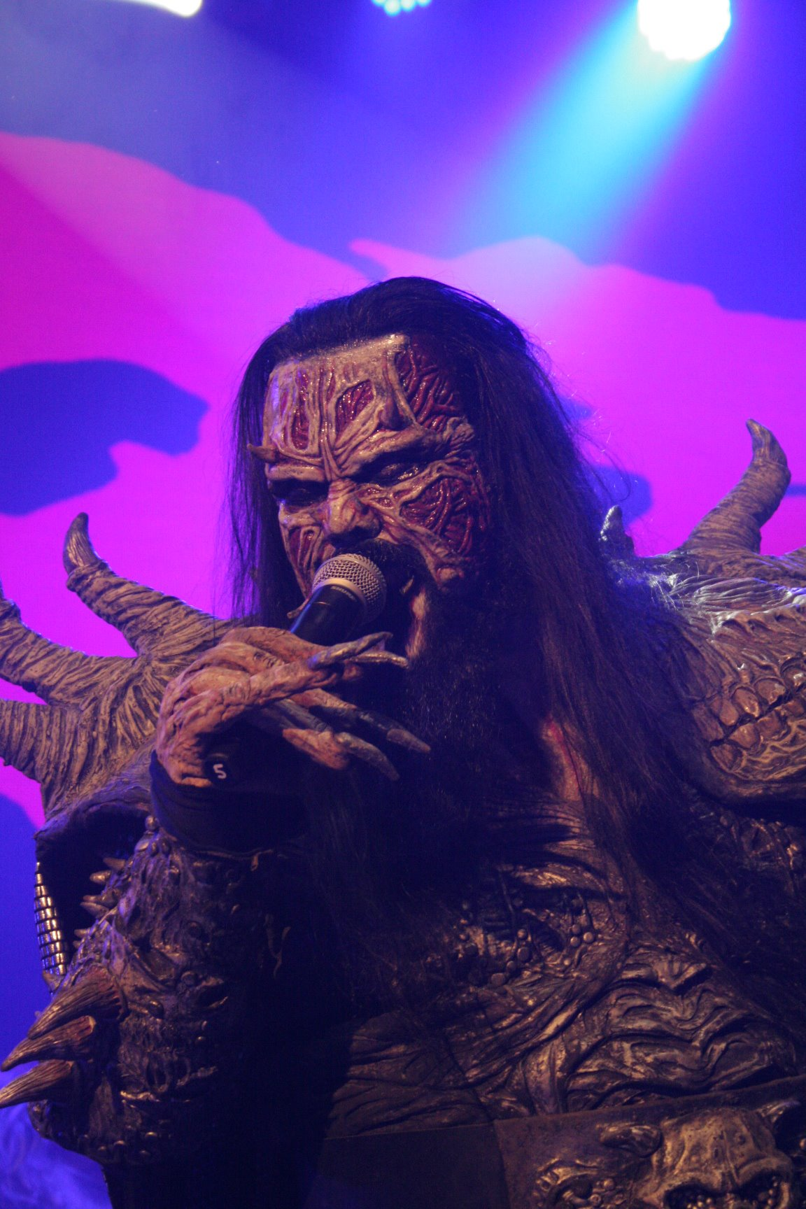 Mr. Lordi during Lordi's concert at Finnish Lordi Cruise in 2013.